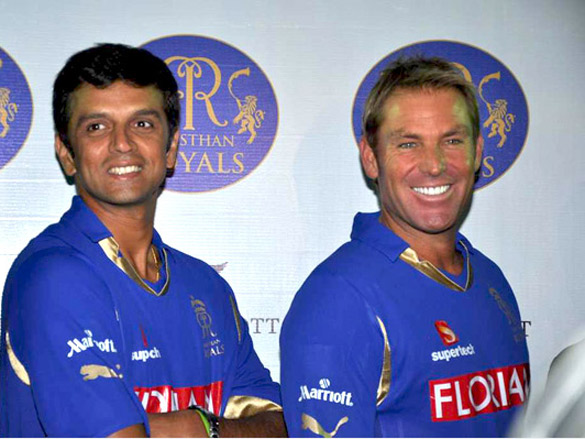 Rahul Dravid and Shane Warne at Shilpa Shetty's house.